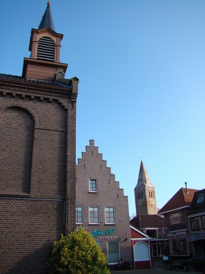 Hippolythushoef centre